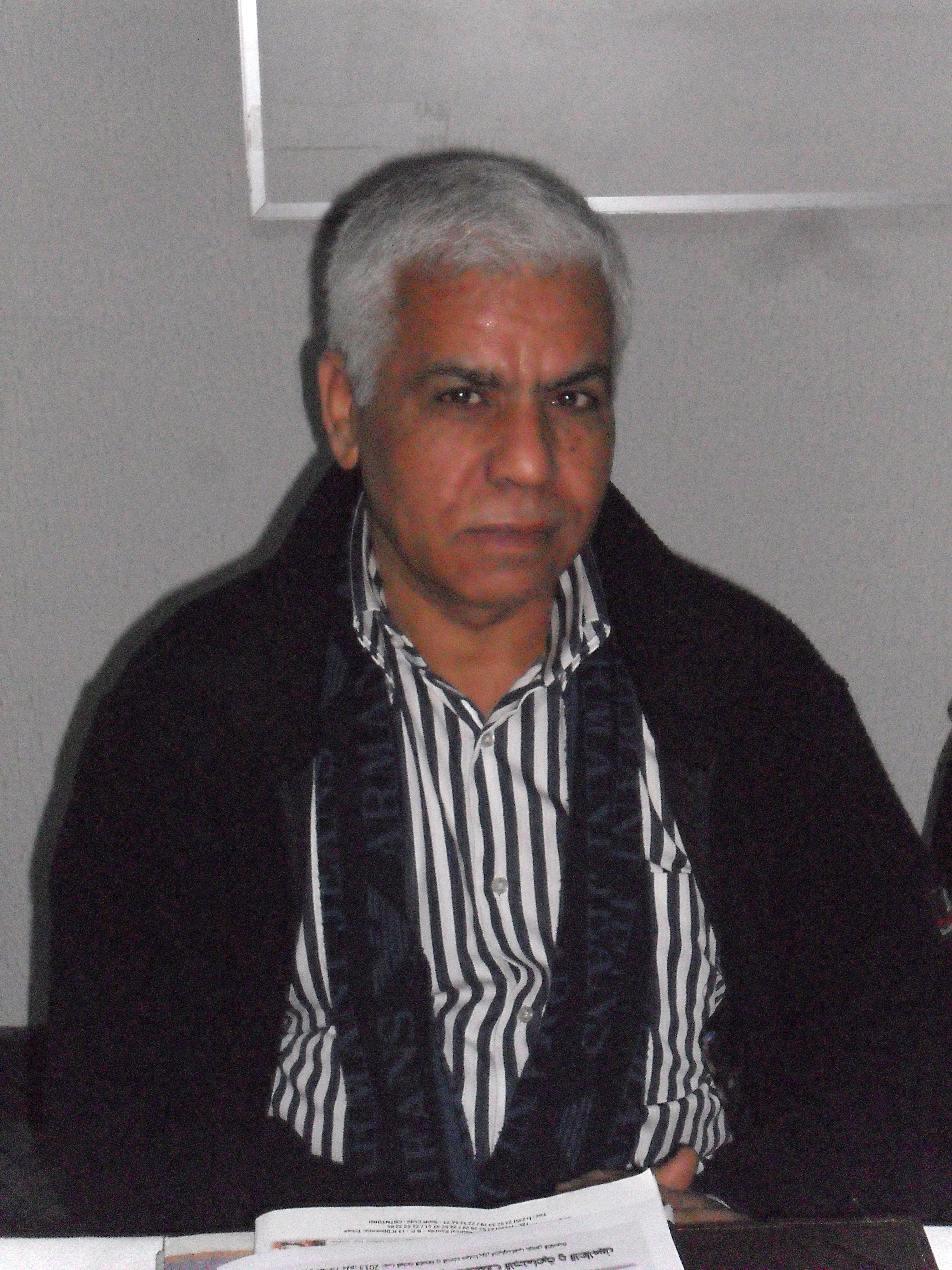 Safi Said (1953- ), tunisian politician, writer and journalist